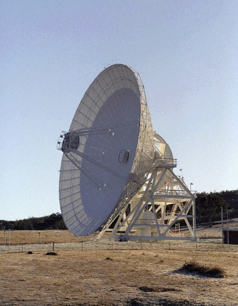 34m Beam Waveguide antenna at the Madrid Complex. The Madrid Deep Space Communications Complex, located outside Madrid, Spain, is one of the three complexes which comprise NASA's Deep Space Network. The other complexes are located in Goldstone, California, and Canberra, Australia. From